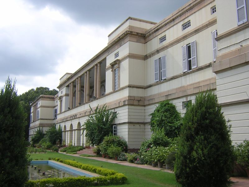 Back lawns of Teen Murti Bhavan, residence of Jawaharlal Nehru